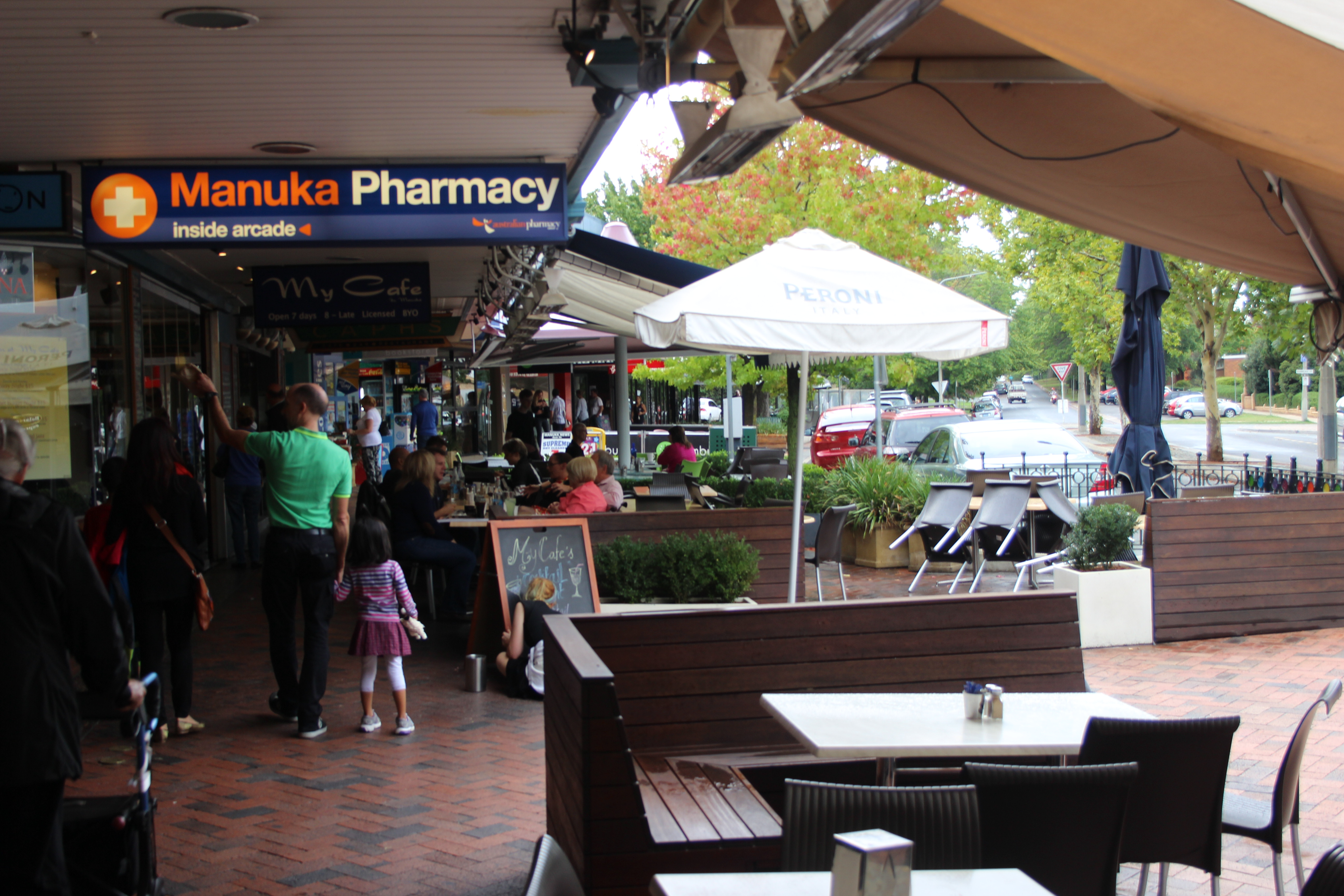 Manuka, ACT, March 2014